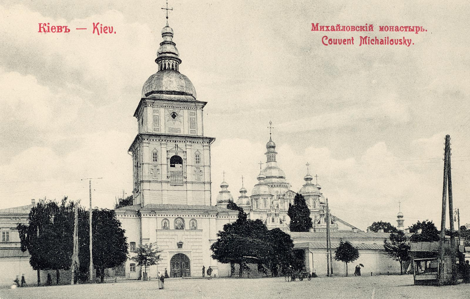 St. Michael's Golden-Domed Monastery in Kyiv in the early 1900s